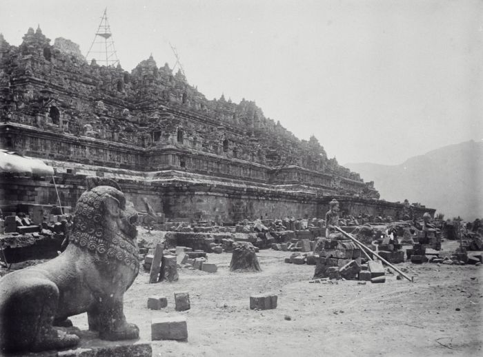 Photograph. Borobudur being restored under the Captain van Erp